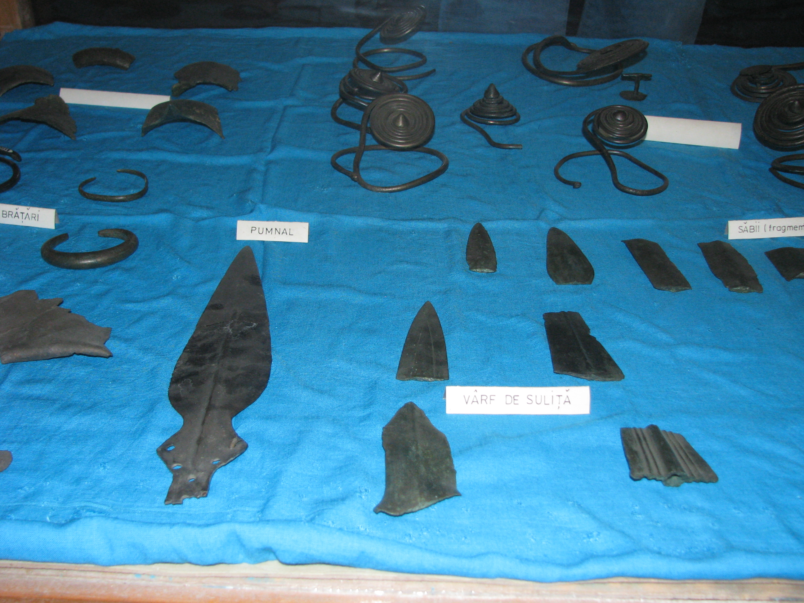 Aiud History Museum 2011